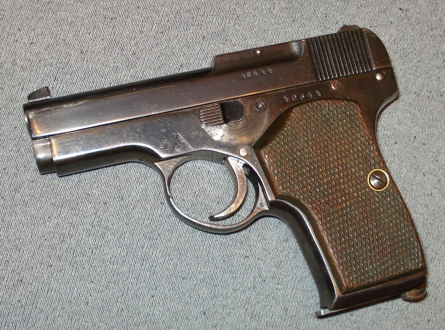 Soviet Korovin TK .25 Auto Pistol.